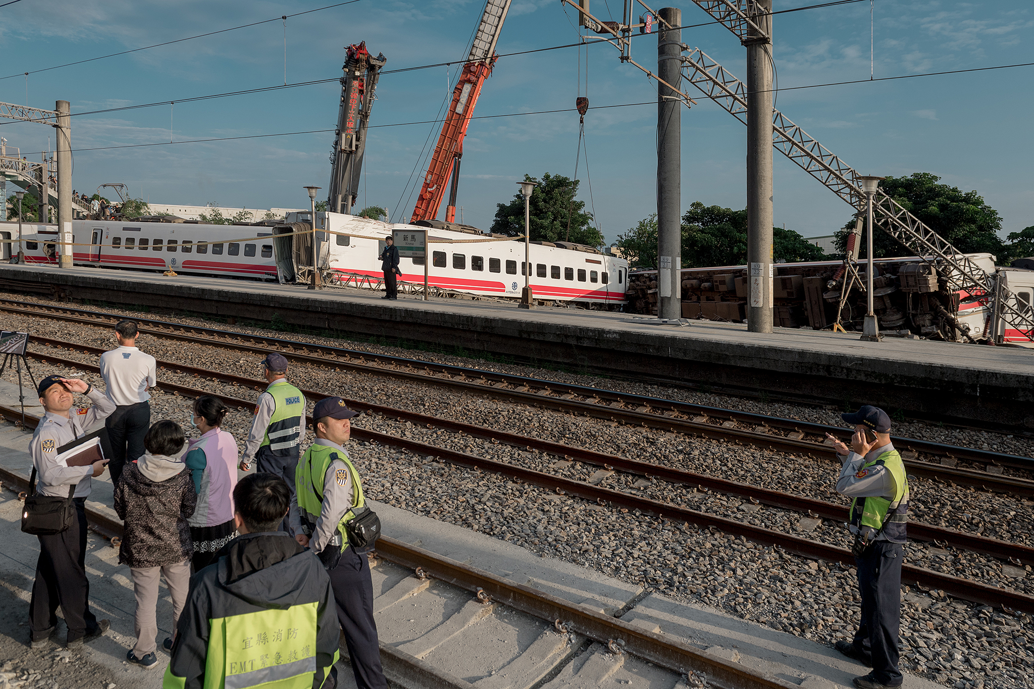 Official Photo by Makoto Lin / Office of the President